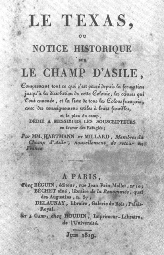 The front cover of a work entitled 'French Exiles in Texas 1818 The Colony Le Champ D'Asile', which tells the story of the Champ d'Asile colony